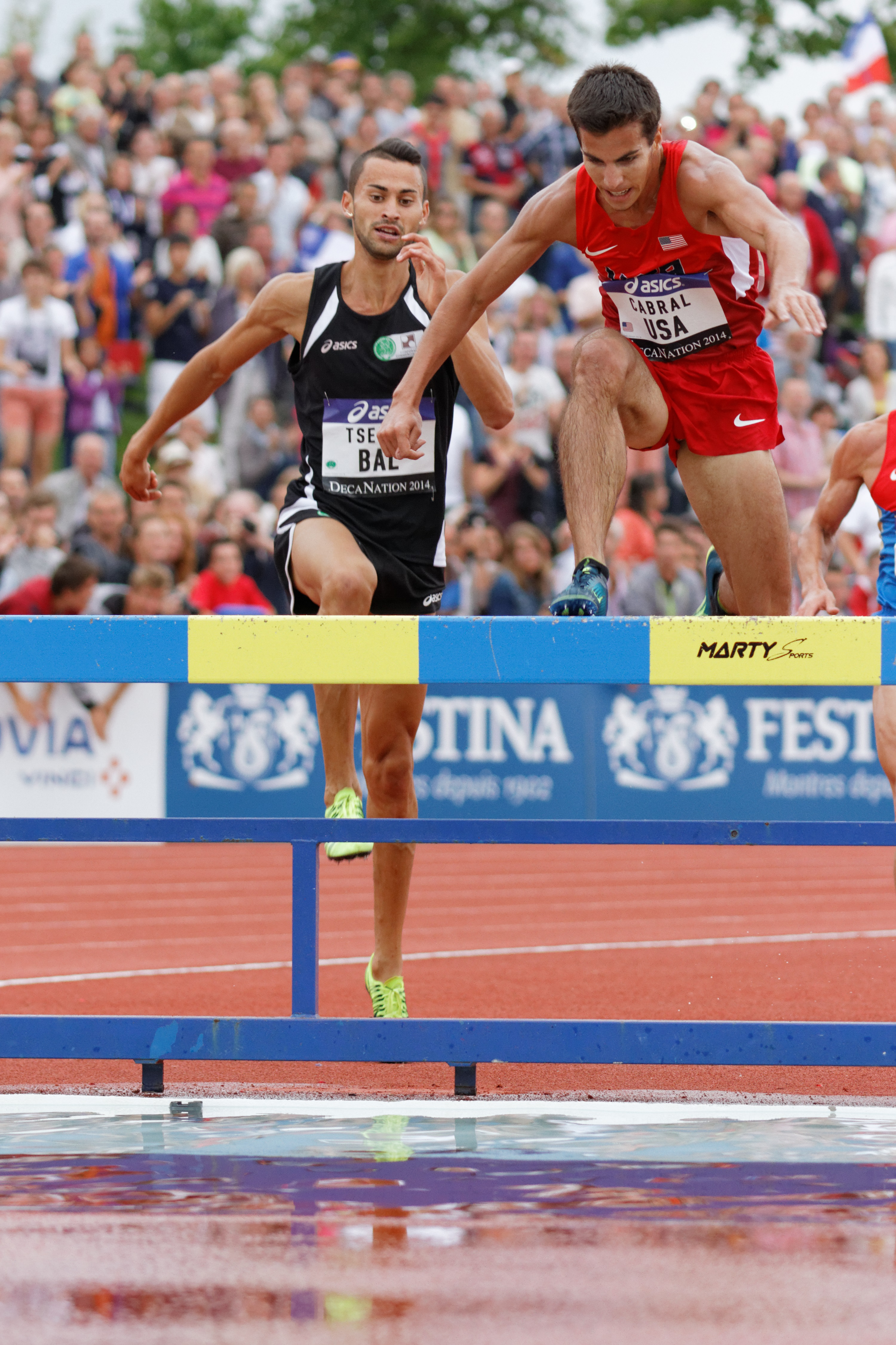 DécaNation 2014. 3000m steeplechase. Mitko Tsenov and Donn Cabral.